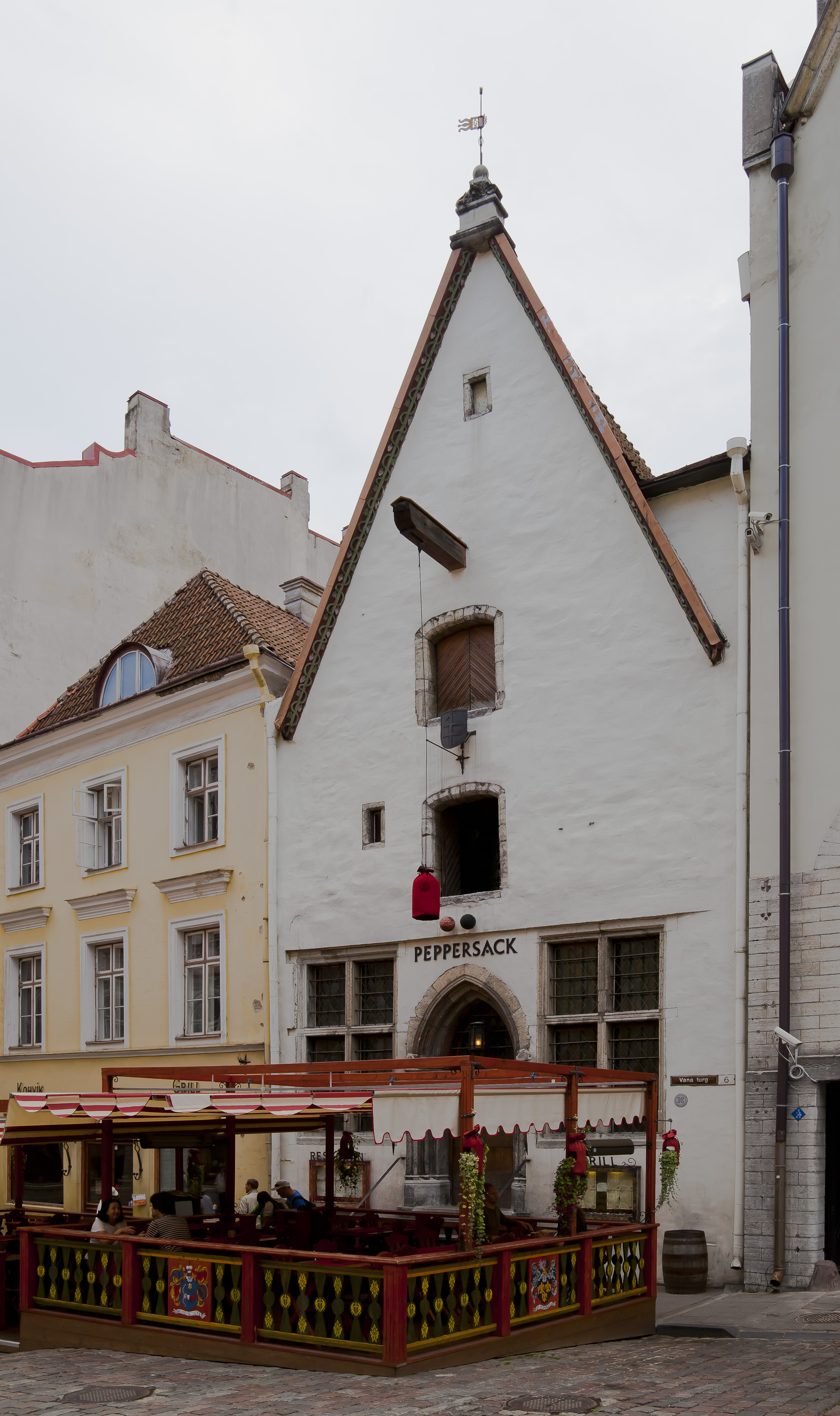 Viru Street, Tallinn, Estonia